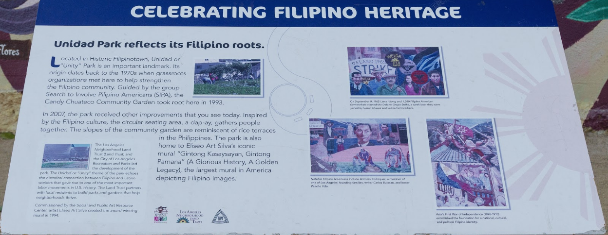 Plaque that stands in front of the Gintong Kasaysayan, Gintong Pamana mural in Unidad Park which provides a brief history of the mural.